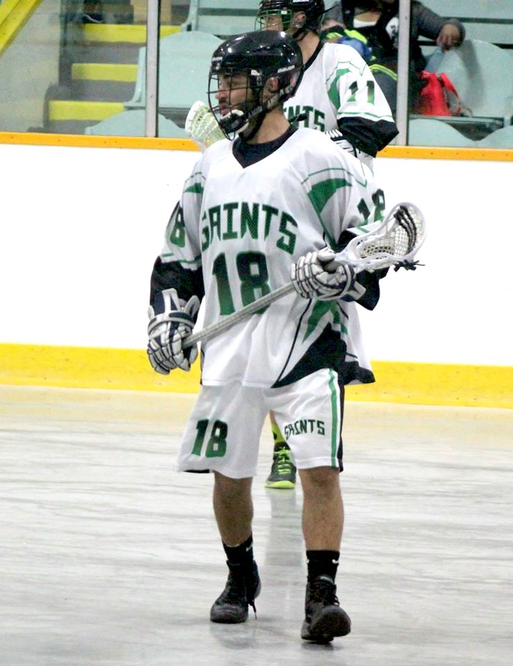 These images of Ontario Senior B Lacrosse Action action during the 2015 season are taken by Devan Mighton.